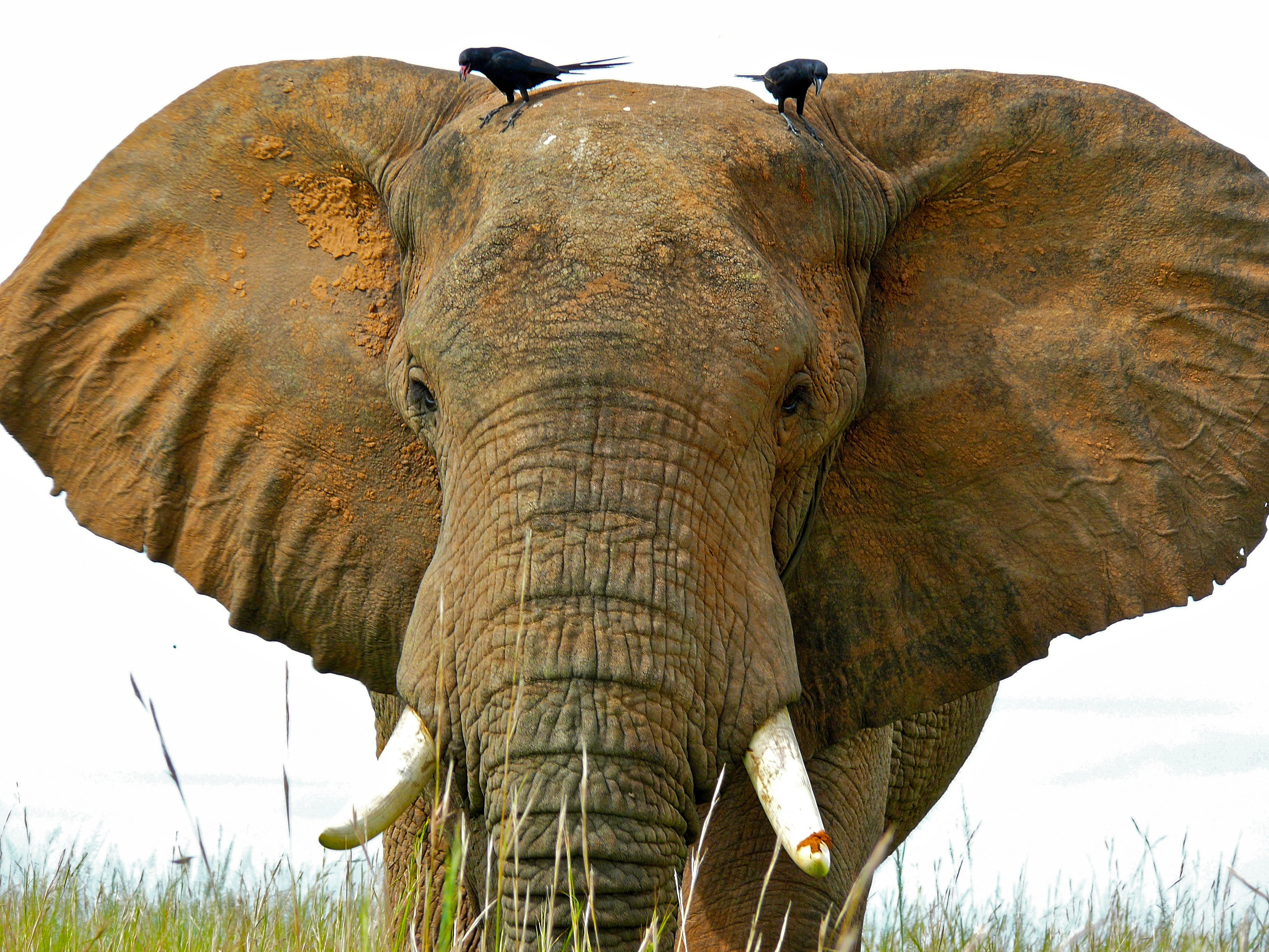 Murchison's Falls NP, UGANDA